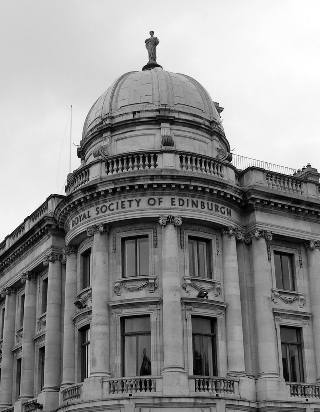 This is the Royal Society of Edinburgh building. It was taken on the pedestrian island on George Street looking SE onto the junction with Hanover Street.